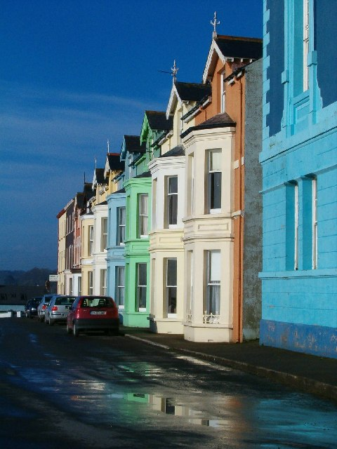 Terraced Housing in Moville, Co Donegal I loved the saturated colours after the rain. The large, blue building to the right of the scene is the local Temperance Hall (never been in).